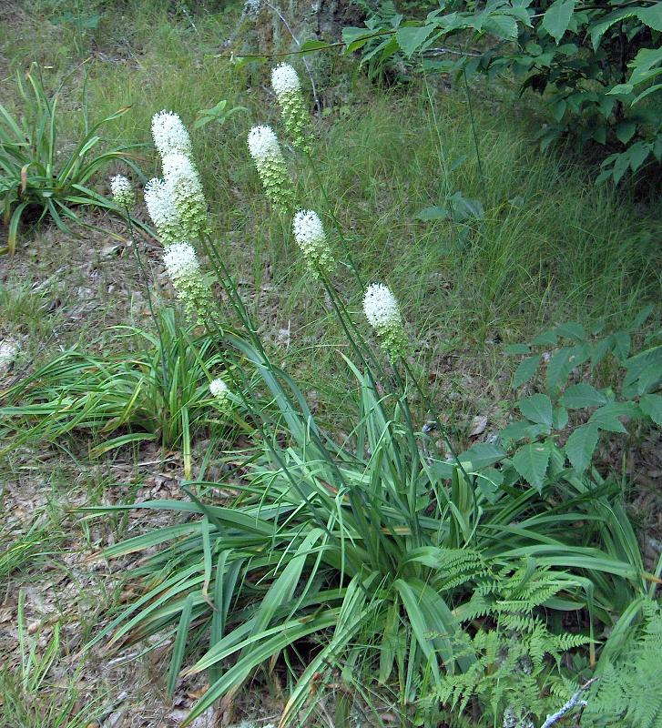 Fly Poison Amianthium muscitoxicum. Great Smoky Mountains National Park.